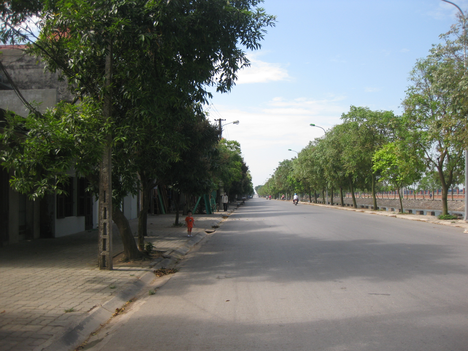 frafa